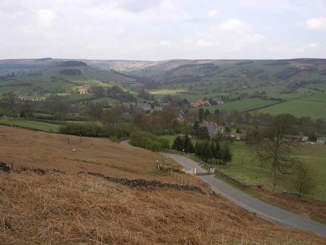 The view towards Rosedale Abbey Taken from the Chimney road at a completely different time of the year to my other photograph - what a difference a season makes!